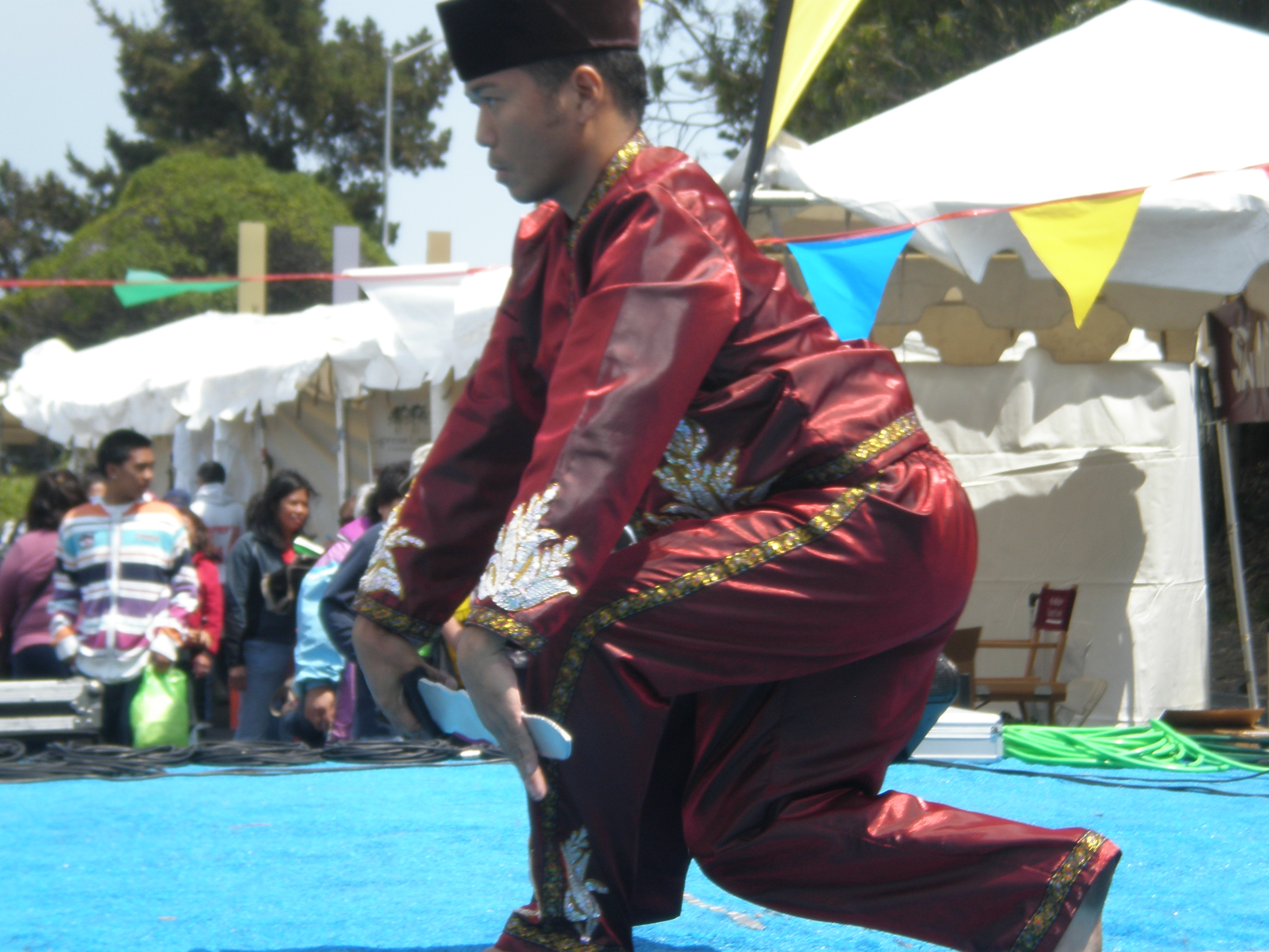 A member of the San Francisco based Parangal Dance Company performing a Langka Kuntao routine as part of their Bangsamoro suite of dances at the 14th Annual Fil-Am Friendship Celebration at Serramonte Center in Daly City, California.